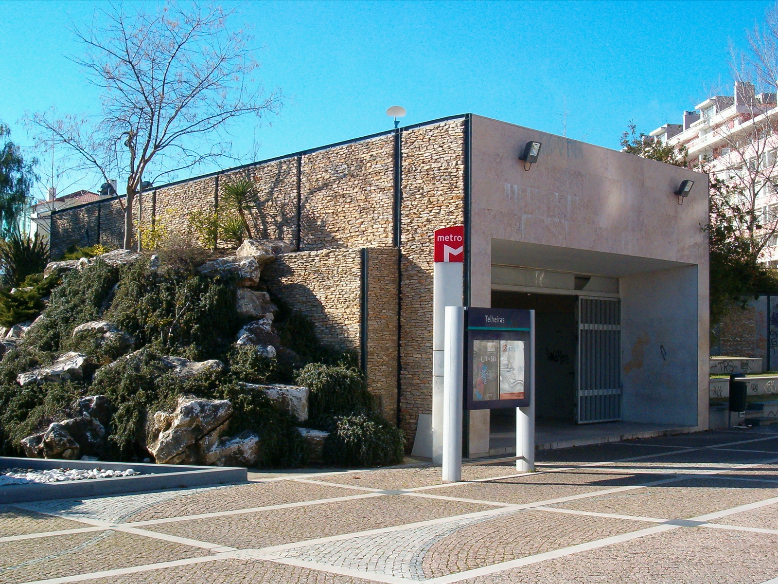 Metro station Telheiras (Lisboa)